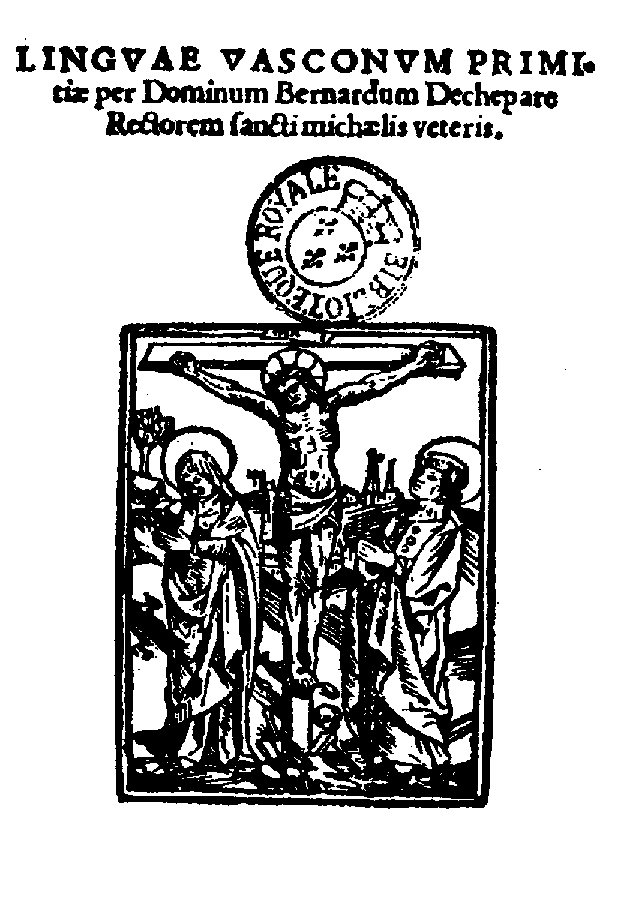 A first page of a medivial Basque book, Lingue vasconum primitiae